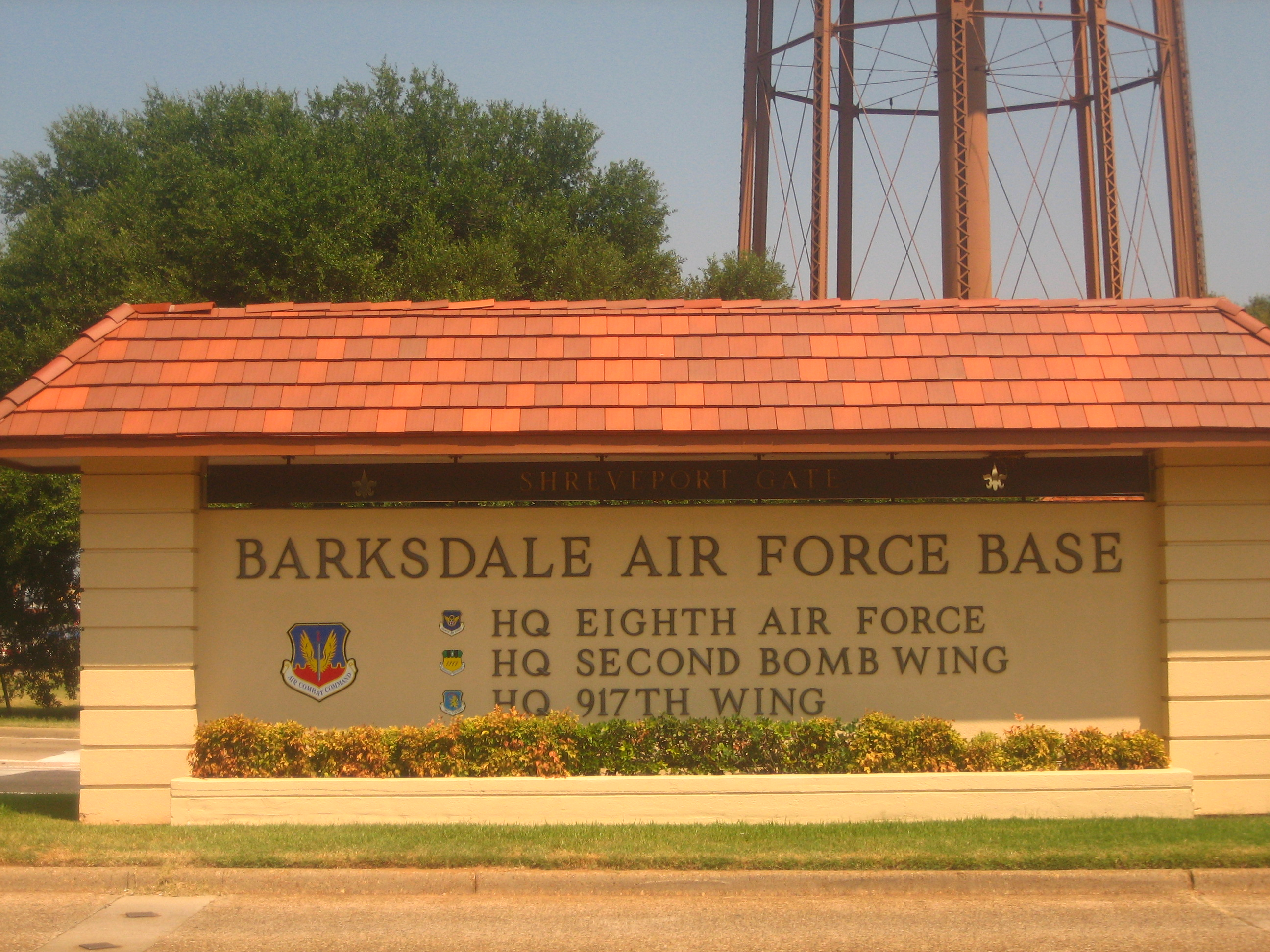 I took photo on Aug. 4, 2008.Billy Hathorn (talk) 21:47, 14 August 2008 (UTC)